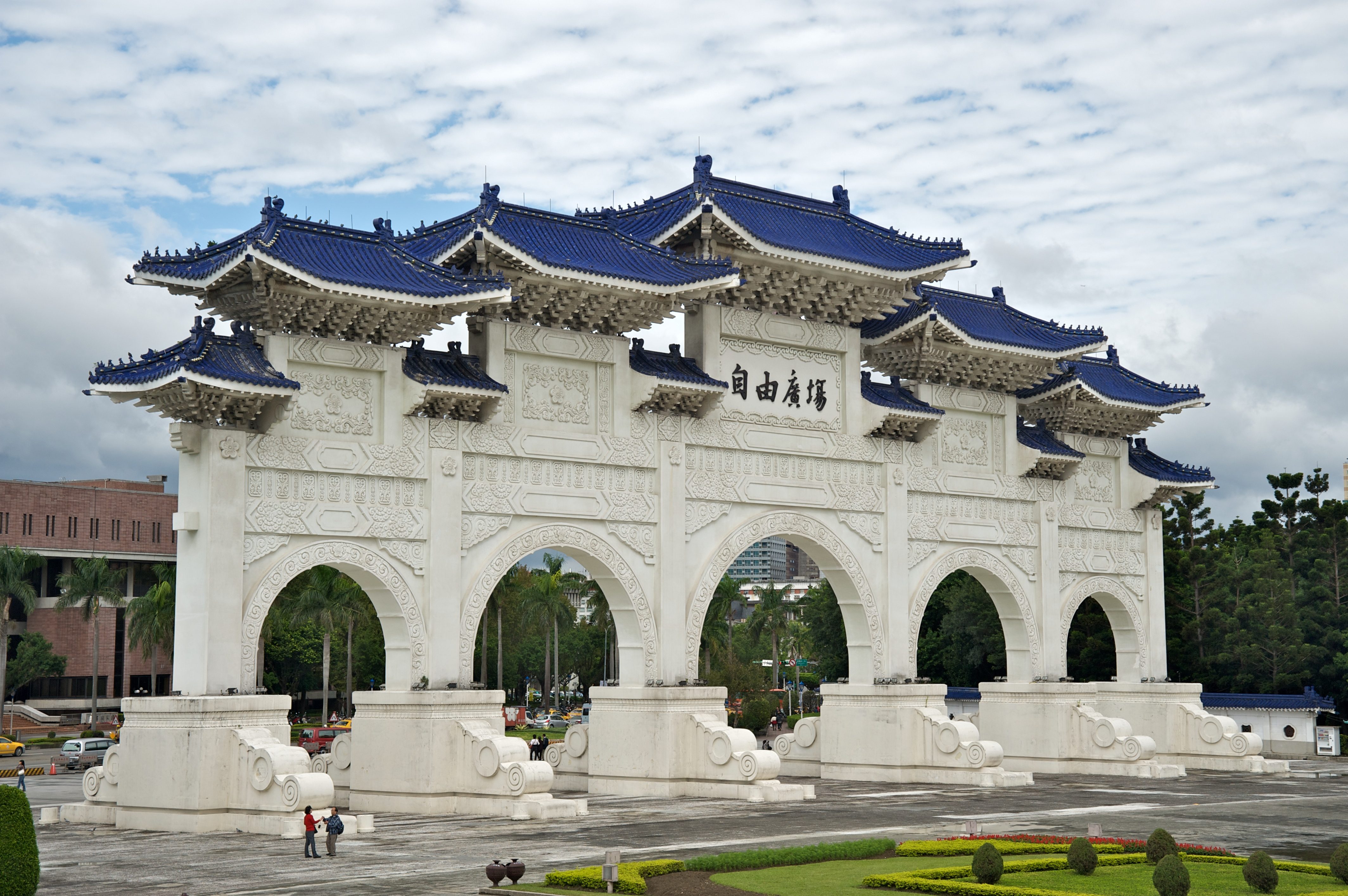 Main archway at the Liberty Square in Taipei, Taiwan